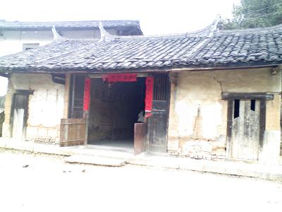 大燕村祠堂豫章堂